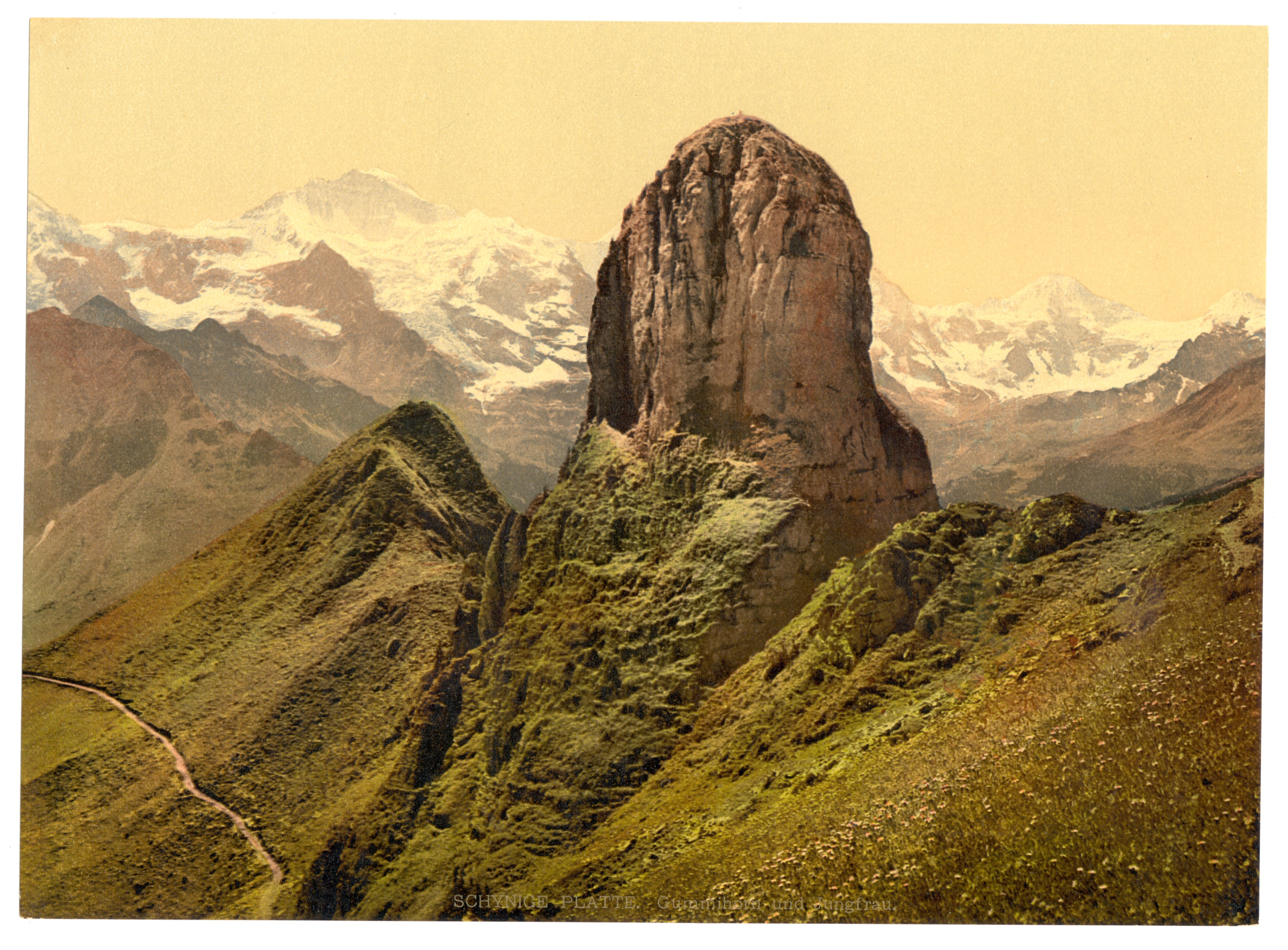 Print no. "17051".; Forms part of: Views of Switzerland in the Photochrom print collection.; Title devised by Library staff.